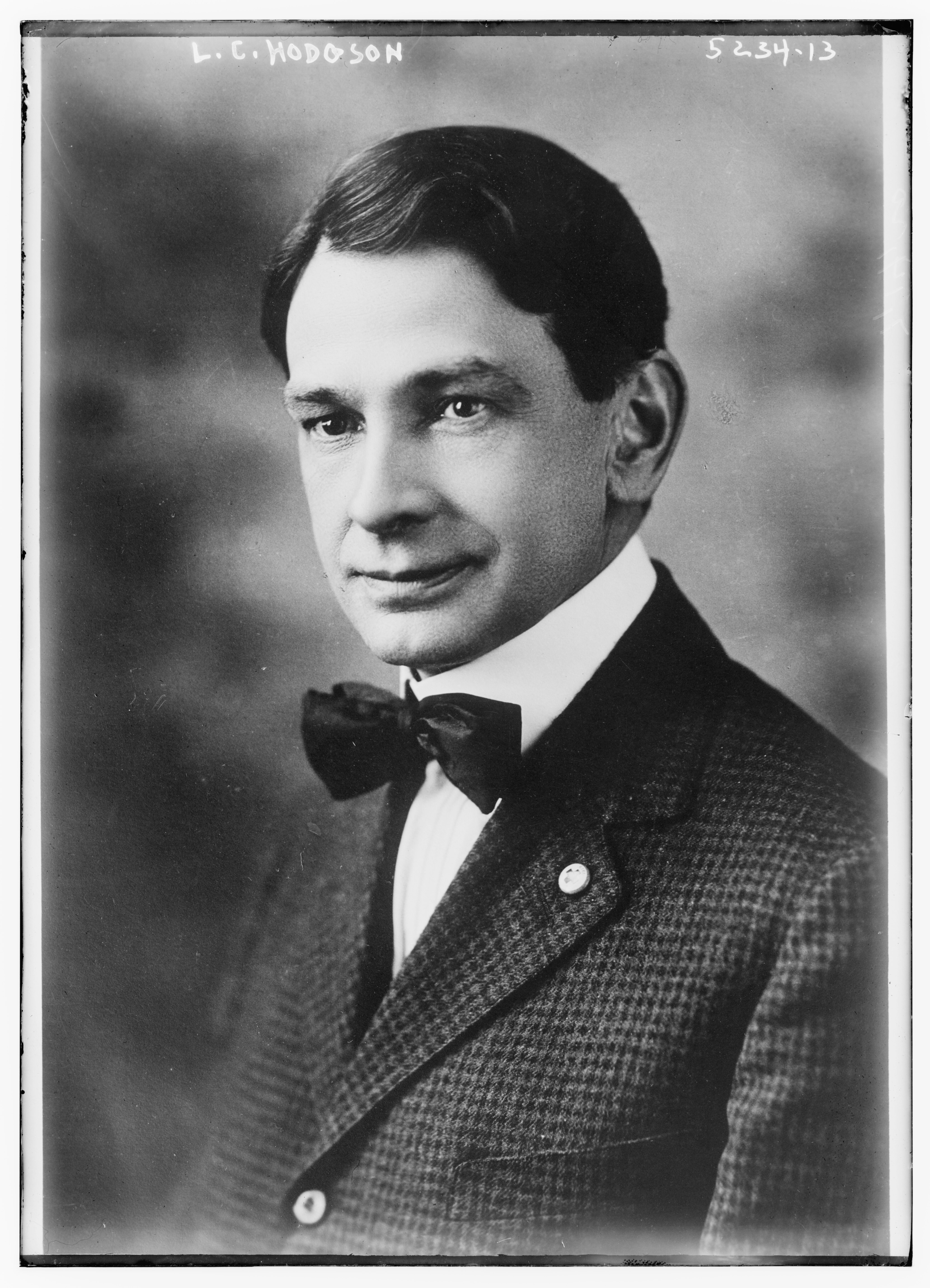 Photograph of St Paul Mayor Laurence C. Hodgson in 1919